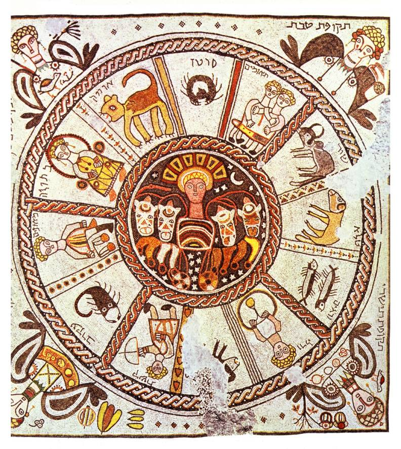 Byzantine mosaic of a Zodiac Wheel — from the 6th century ancient Beth Alpha synagogue. Located near Beit Alfa kibbitz, in northern Israel.